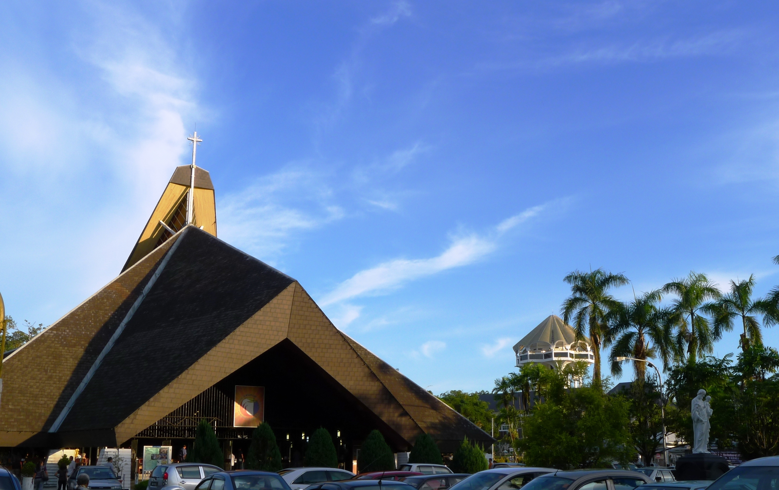 St Joseph Cathedral in Kuching. Building in the background is the Kuching Civic Centre.